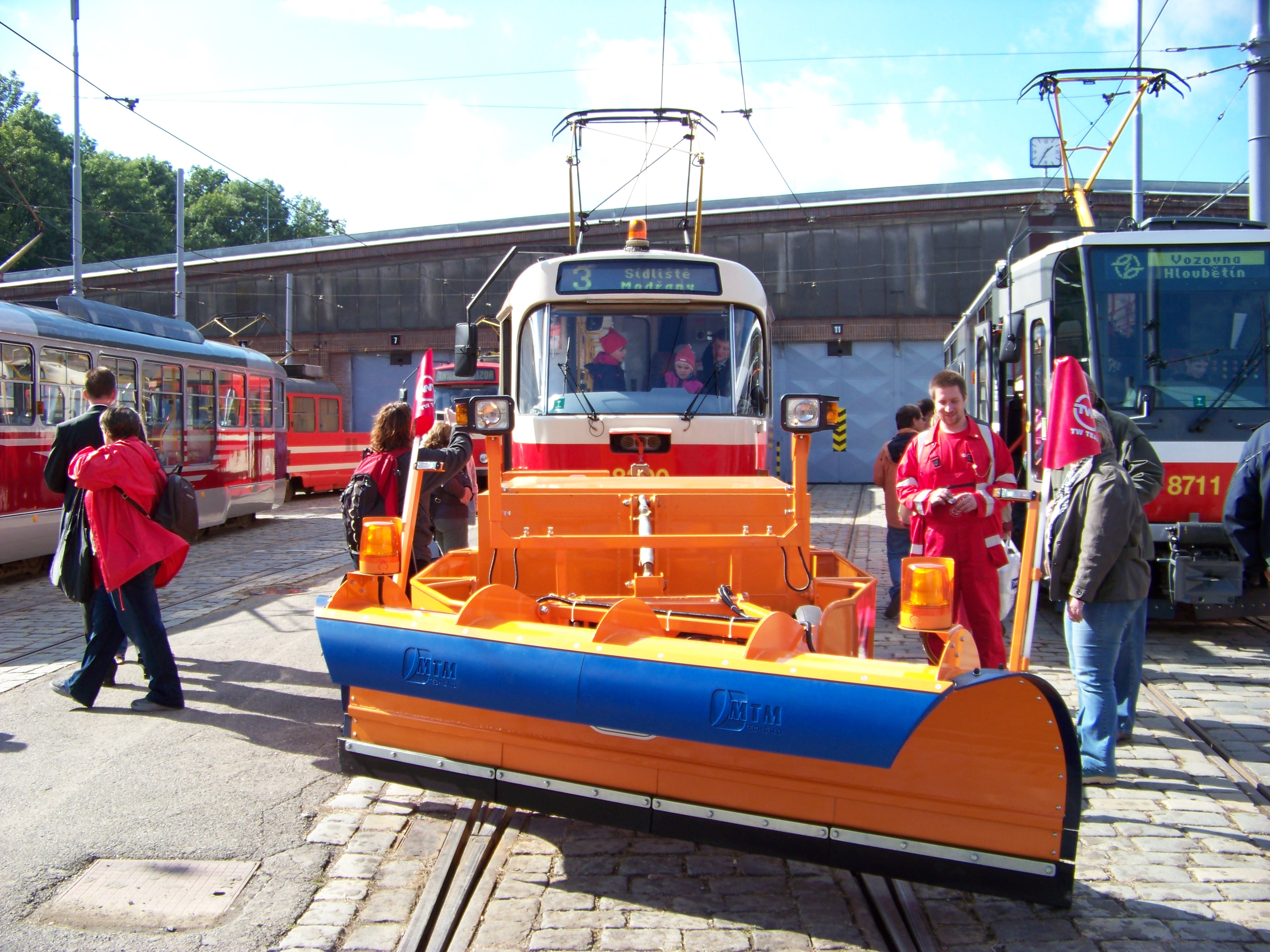 Prague-Motol, the Czech Republic. Motol tram depot, Open Doors Day. A tram snowplowgh.